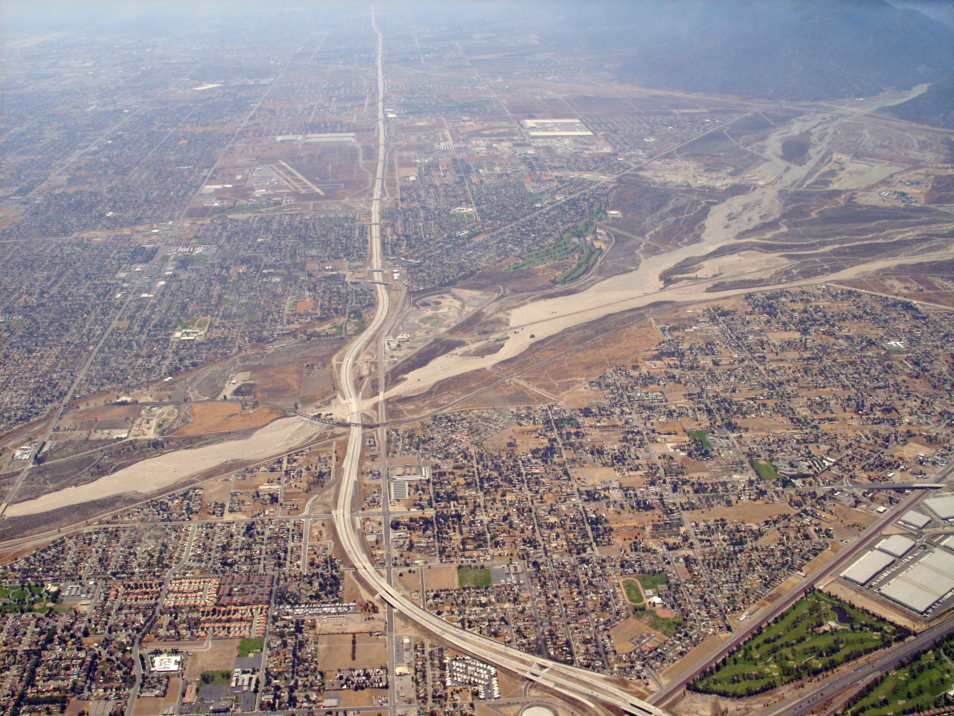 Aerial view of the Inland Empire overlooking San Bernardino and Rialto, California, USA.